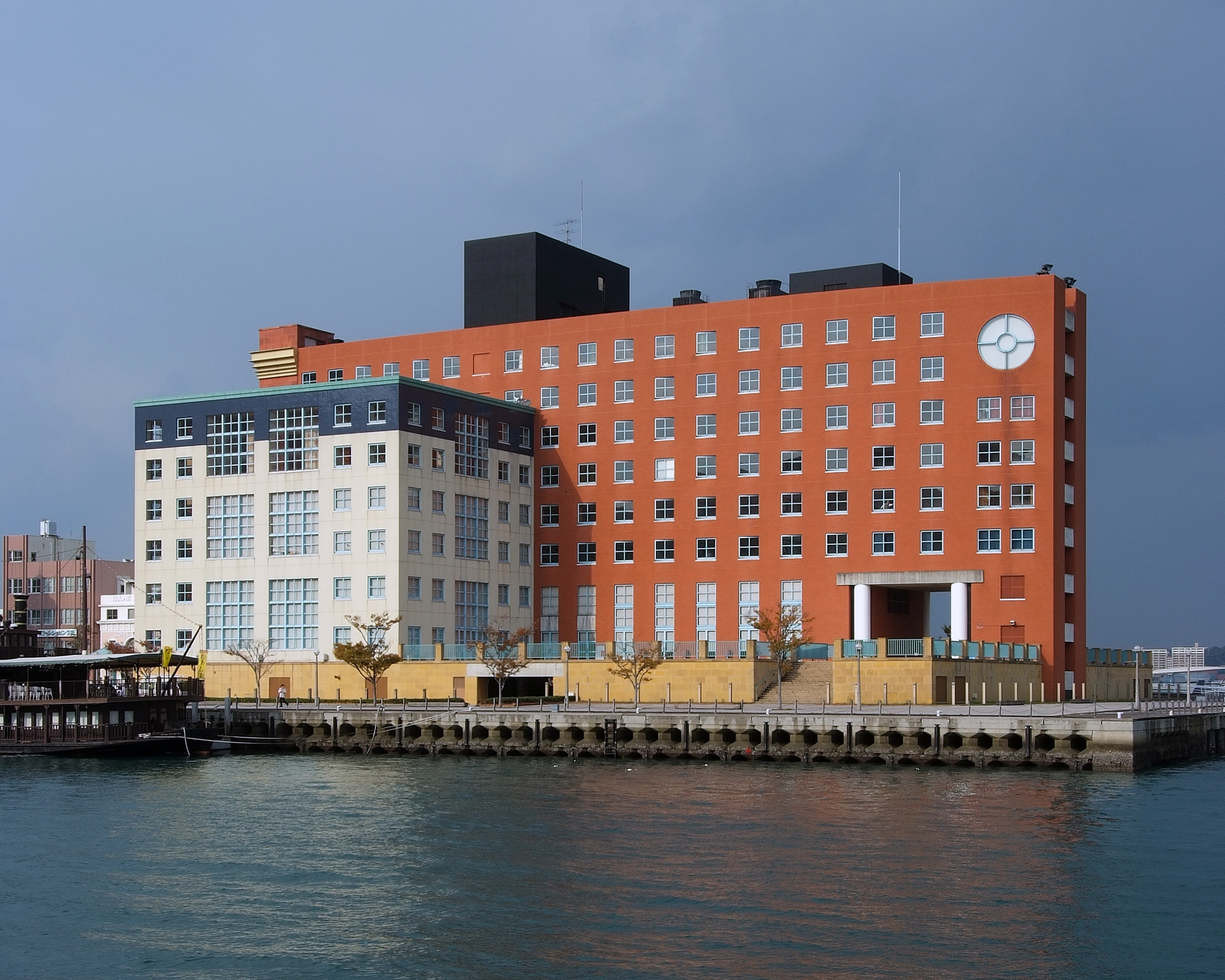 Mojiko Hotel, at Kitakyûsyû Fukuoka Japan, design by Aldo Rossi in 1998.